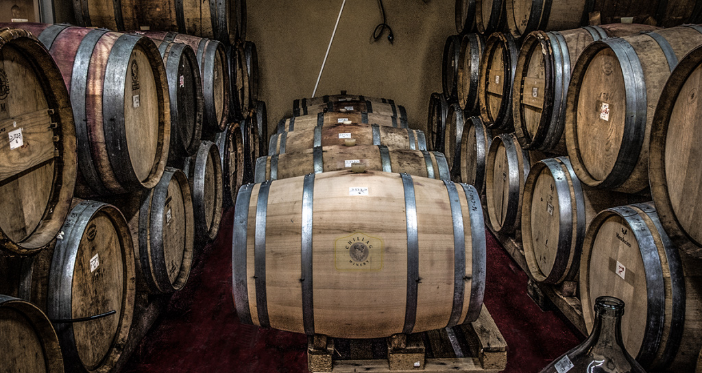 יקב צ'ילאג